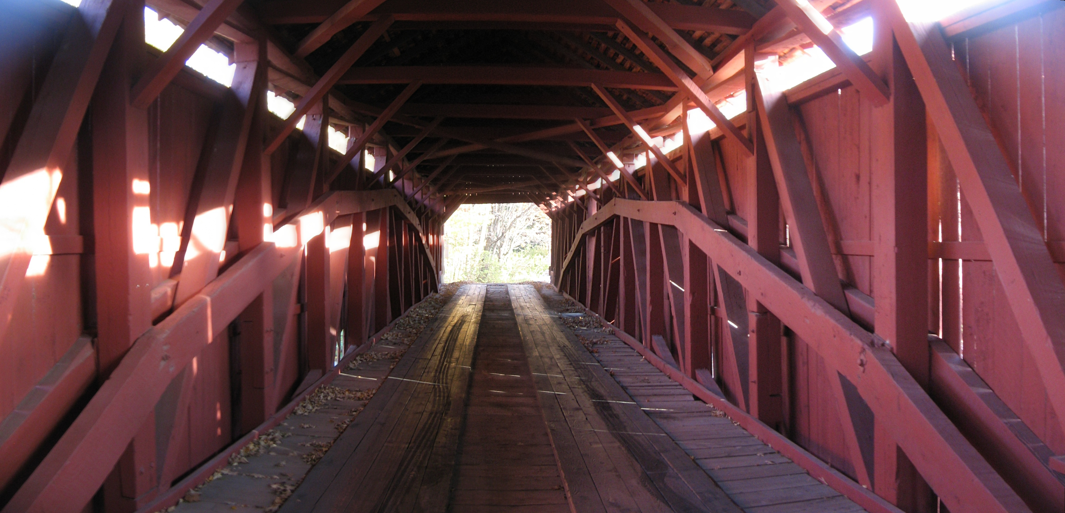 Interior of Sonestown Covered Bridge over Muncy Creek in Davidson Township, Sullivan County, Pennsylvania in the United States. Built 1850, on the National Register of Historic Places. Note crude nature of Burr arches - wood is not curved, just straight beams at angles approximating a curve.